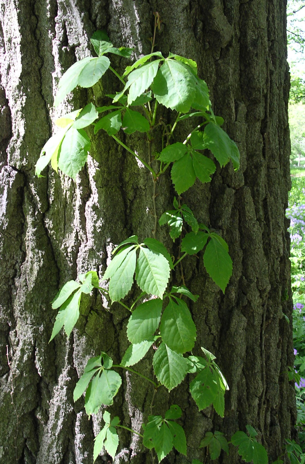 The Morton Arboretum in Lisle, Illinois.